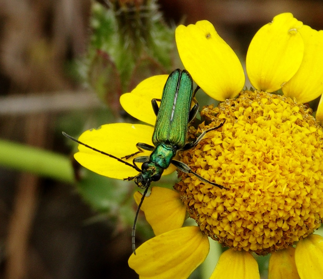 Anogcodes seladoniuson chamomile flower